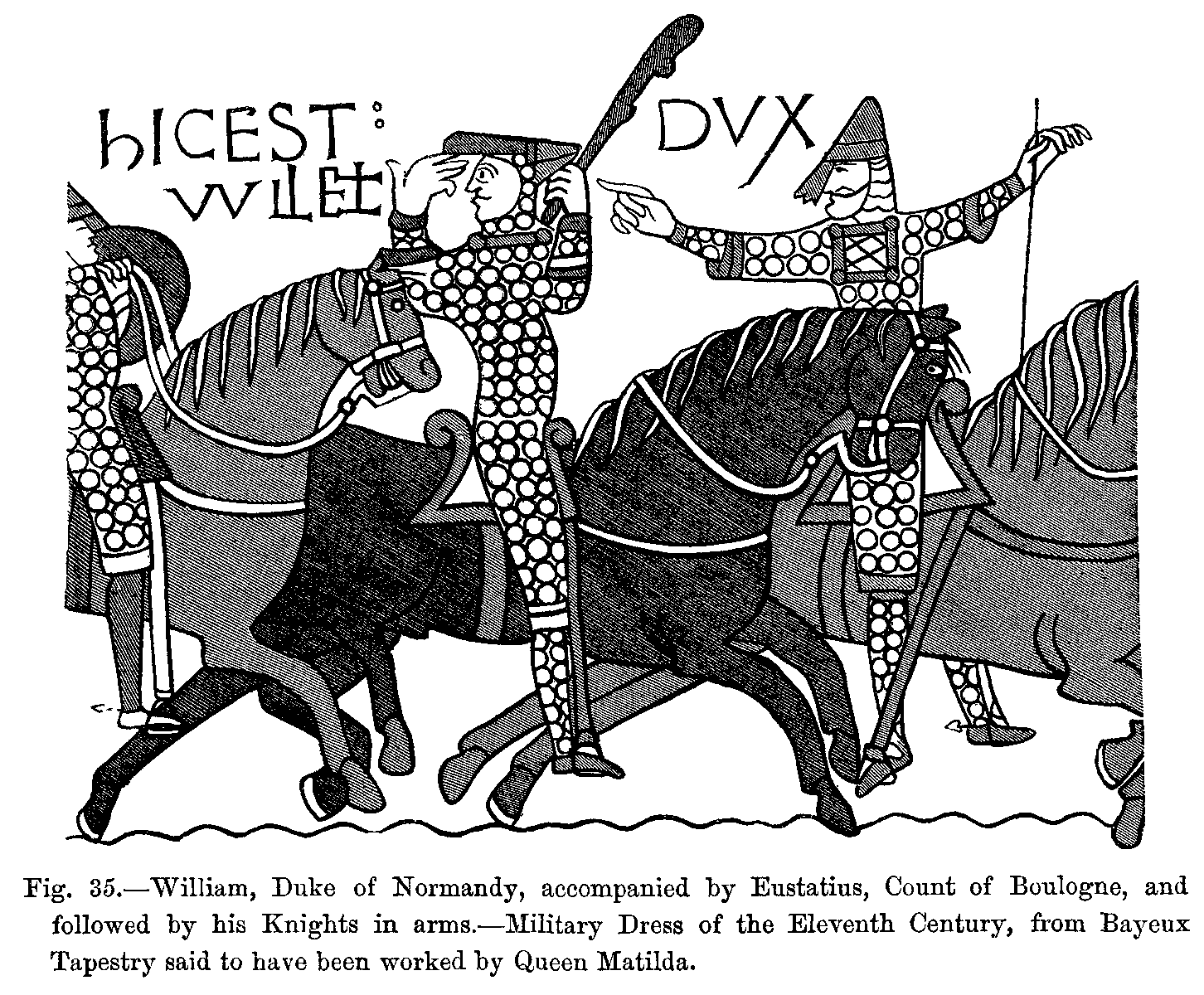 William, Duke of Normandy, accompanied by Eustatius, Count of Boulogne, and followed by his Knights in arms.--Military Dress of the Eleventh Century, from Bayeux Tapestry said to have been worked by Queen Matilda. Project Gutenberg text 10940